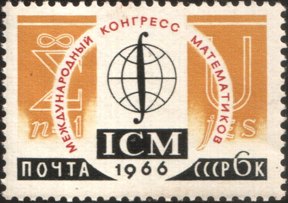 USSR stamp: The International Congress of Mathematicians (ICM) (16–26.08, Moscow). Emblem: Integral Symbol and Globe. Sum and Union Symbols. Series: International Scientific Congresses to Be Held in USSR